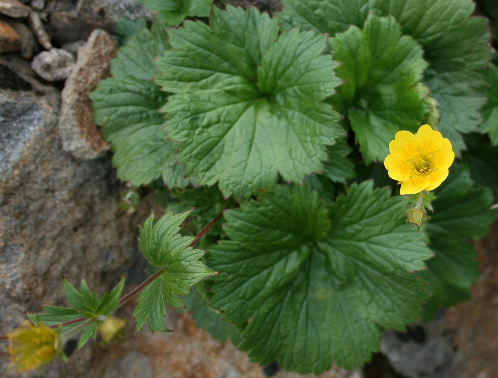 Geum calthaefolium var. nipponicum in Mount Ontake, Japan.